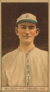 A 1912 T207 baseball card of Chief Wilson of the Pittsburgh Pirates, from the same year that he set the major league record for triples in a season.